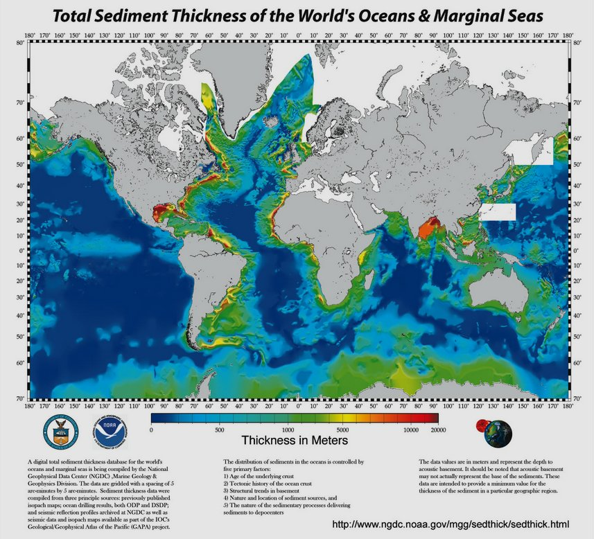 NOAA National Geophysical Data Center in Boulder, CO